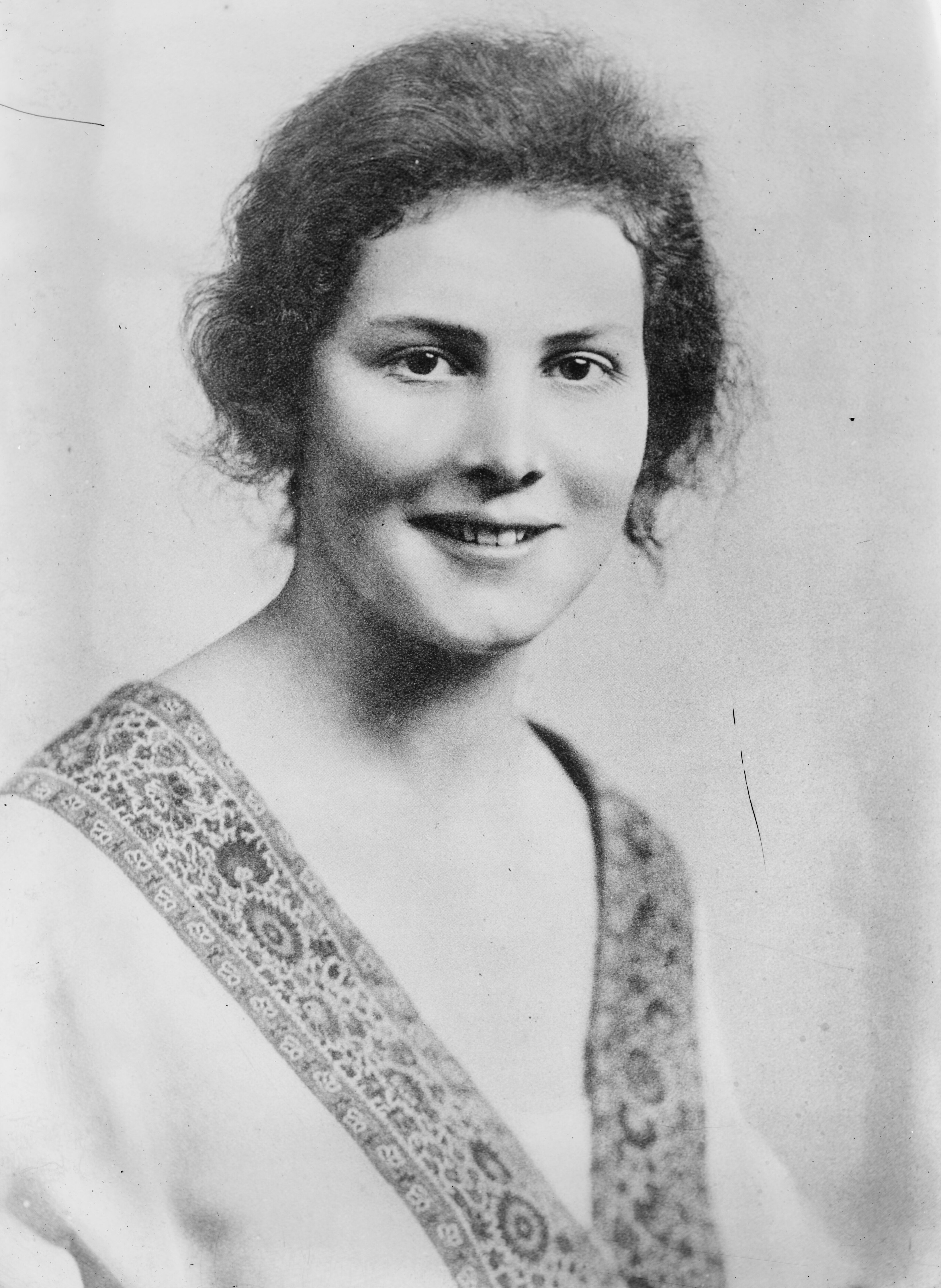 Title: Ishbel MacDonald Abstract/medium: 1 negative : glass ; 5 x 7 in. or smaller.